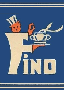 Fino logo 1922